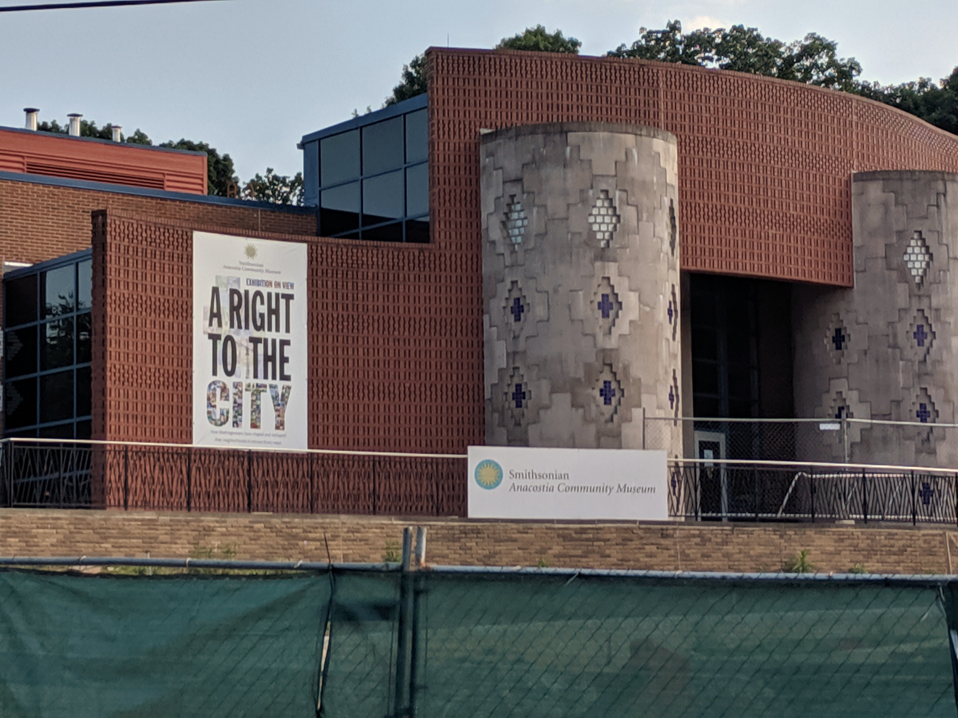 Anacostia Museum undergoing renovations in July of 2019, Anacostia, Washington, D.C.